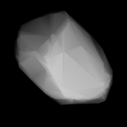 3D convex shape model of 1118 Hanskyata, computed using light curve inversion techniques. J. Hanuš, J. Ďurech, M. Brož, B. D. Warner (June 2011). "A study of asteroid pole-latitude distribution based on an extended set of shape models derived by the lightcurve inversion method". Astronomy and Astrophysics 530: A134. ISSN 0004-6361. arXiv